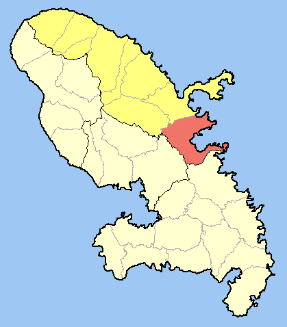 Location of Le Robert within Martinique